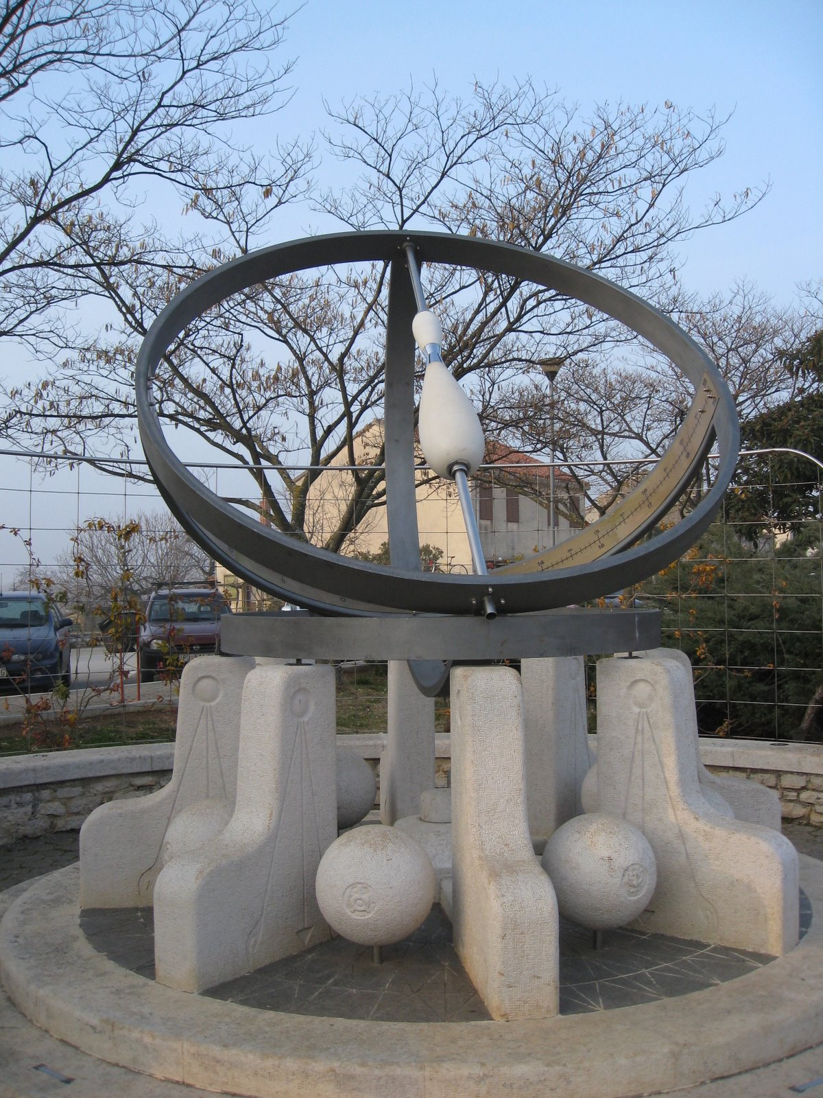 Sundial in Višnjan.